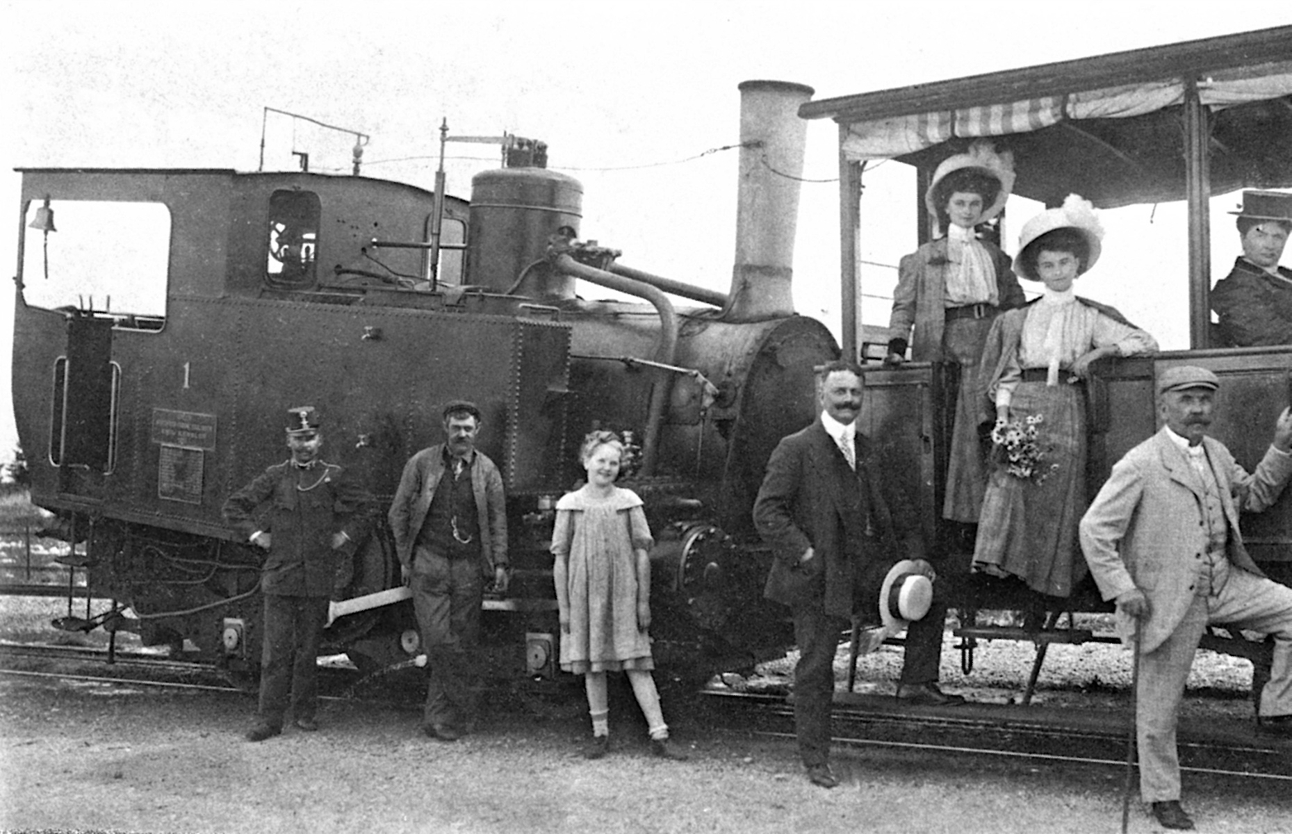 Tourist group and engine crew with Gaisbergbahn No. 1 at Gaisberg-Spitze station